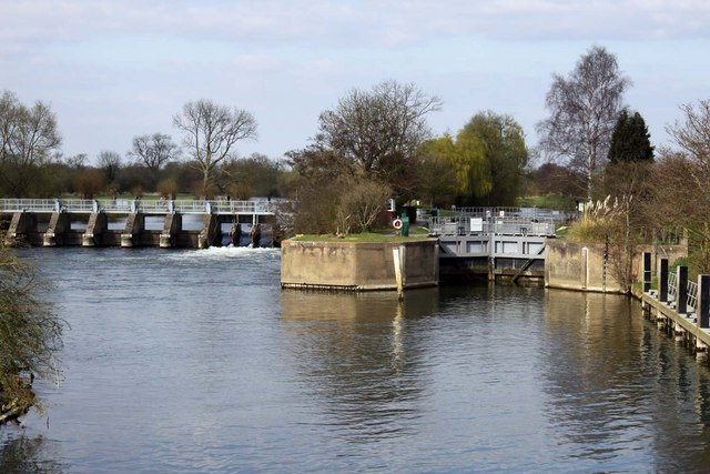 Day's Lock and weir